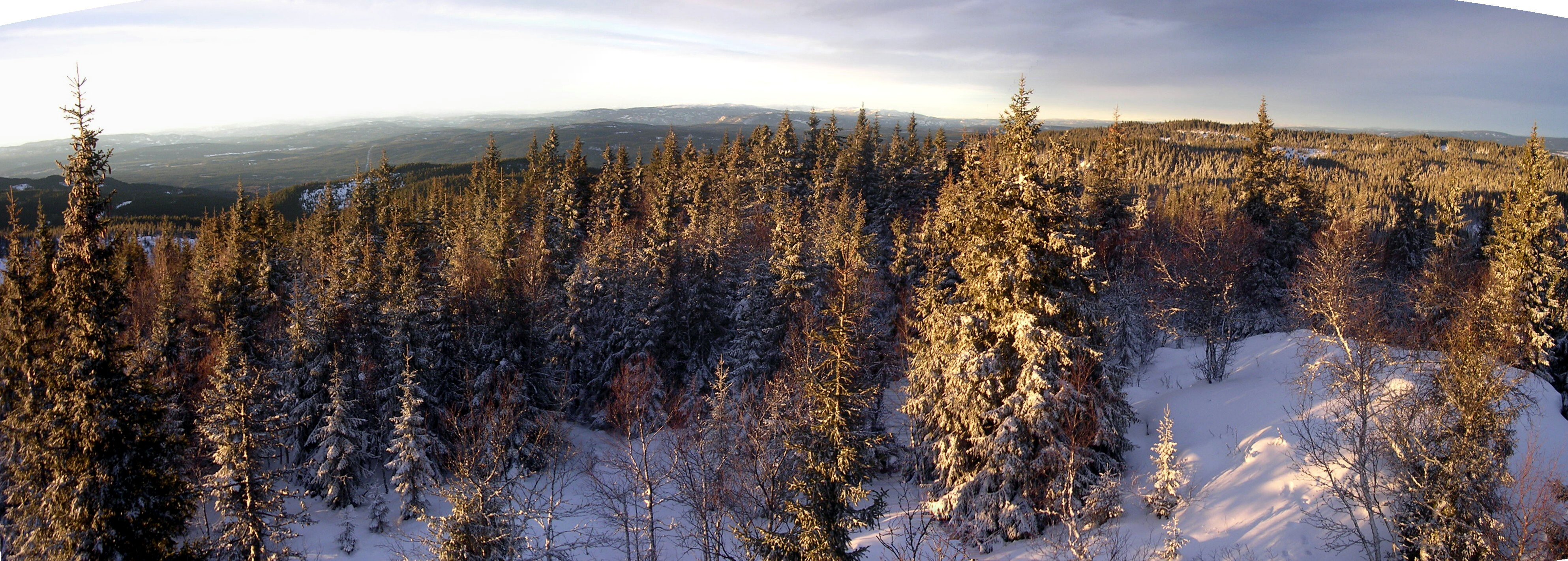 View from Svarttjernshøgda, the highest mountain in the forested Nordmarka or Oslomarka. In the municipality of Jevnaker, Norway. Looking to north-west.